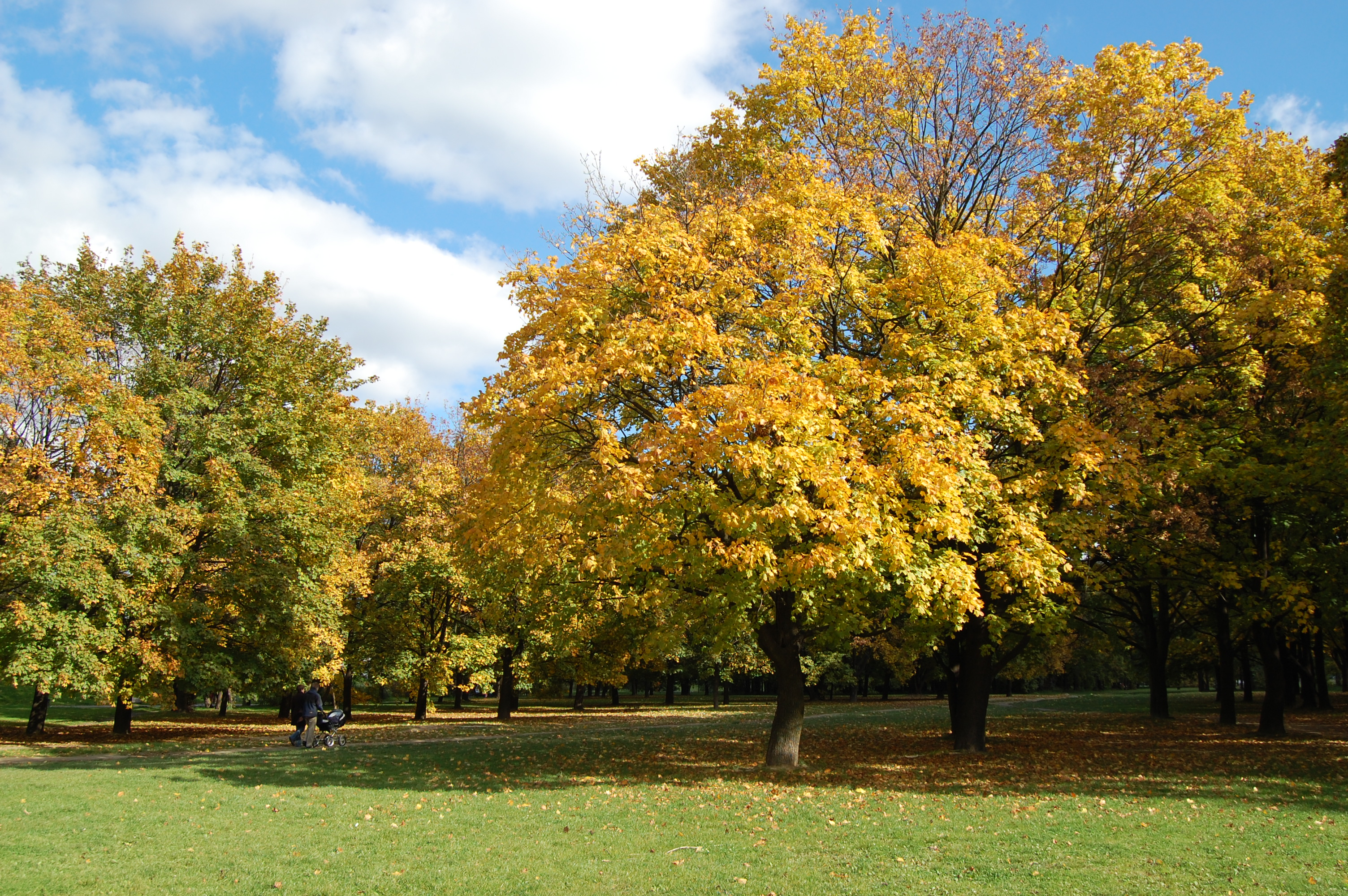 Pole Mokotowskie park in Warsaw, Poland.